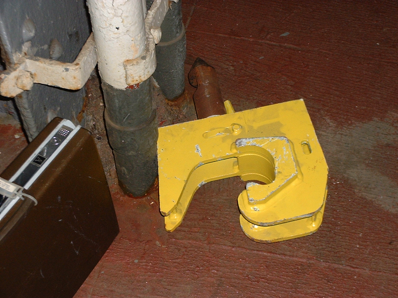 An adaptor for mating differing railroad couplers, stored on a passenger platform at Pennsylvania Station, New York. The device is called compromise coupler and is used to couple NJ Transit Arrow III trains to standard railroad equipment. The Arrow III trains are fitted with a spear type coupler.